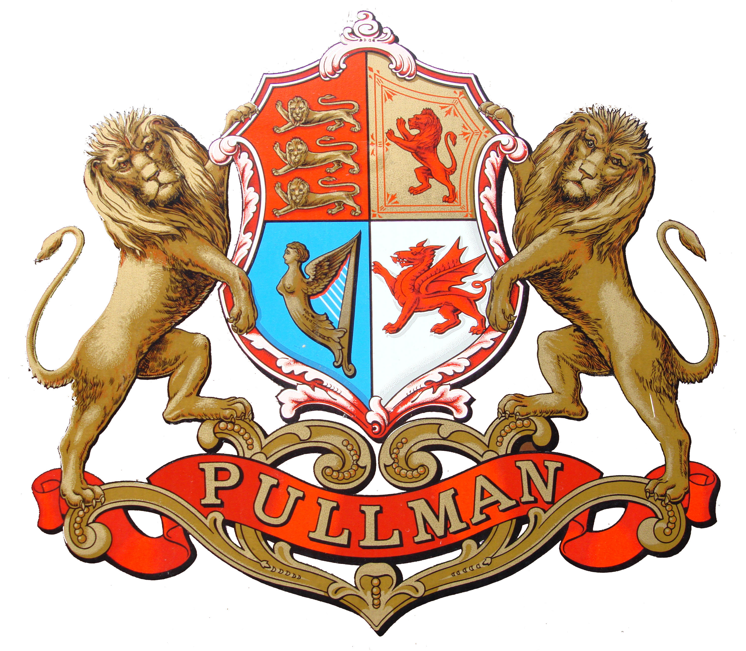 Pullman shield from the side of one of the companies coaches at the Colne Valley Railway